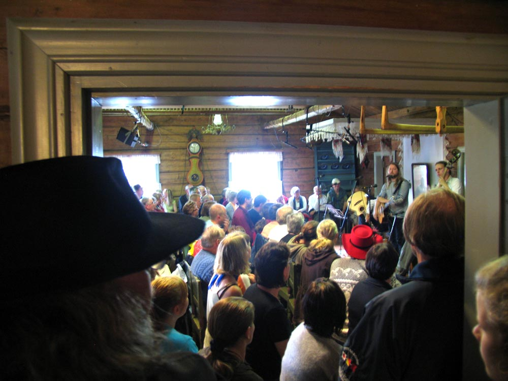 Pelimannitalo at Kaustinen Folk Music Festival in Kaustinen, Finland